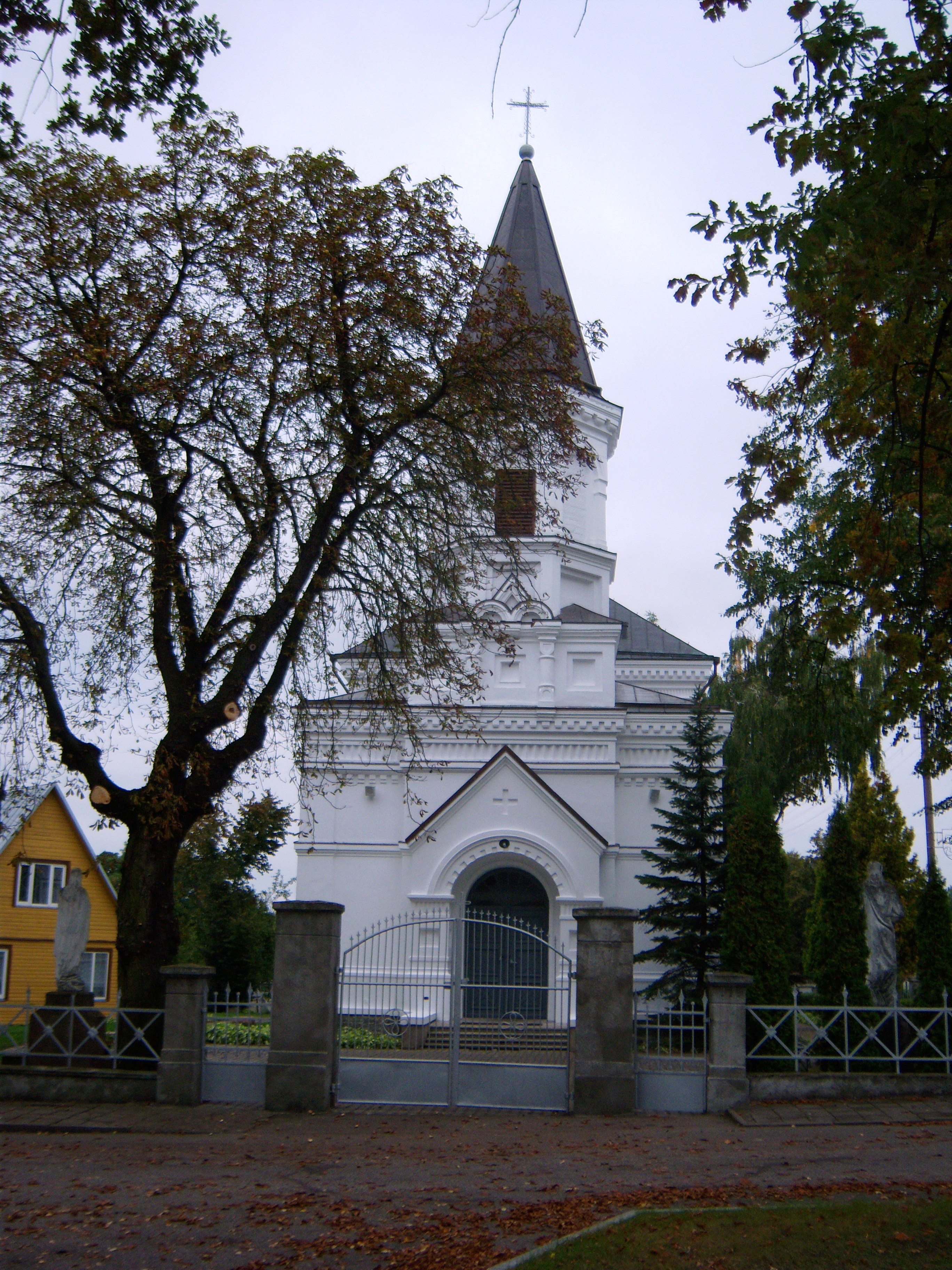 Roman Catholic St. Cross Church, Vilkaviškis, Lithuania